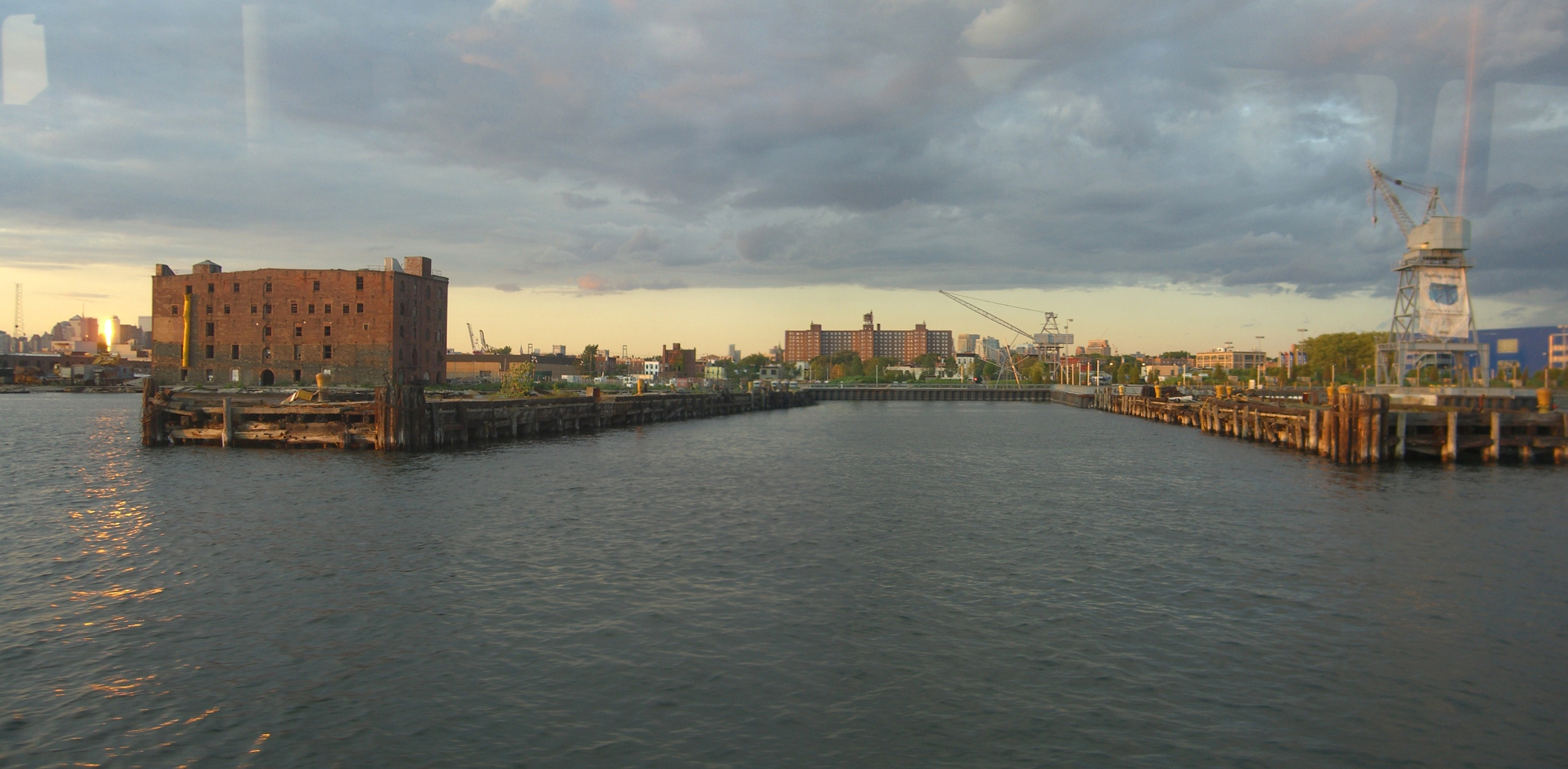 The piers of Red Hook, Brooklyn, photographed from a water taxi.